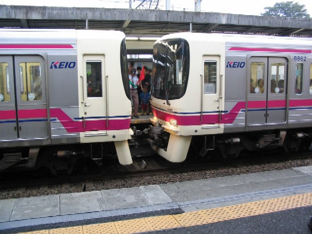 Coupling of two Keio 8000 trains Taken at Takahatafudō Station Two inbound special express trains are being coupled. Right train arrives at the station from Keiō Hachiōji Station earlier than arrival of others, from Takaosanguchi Station.